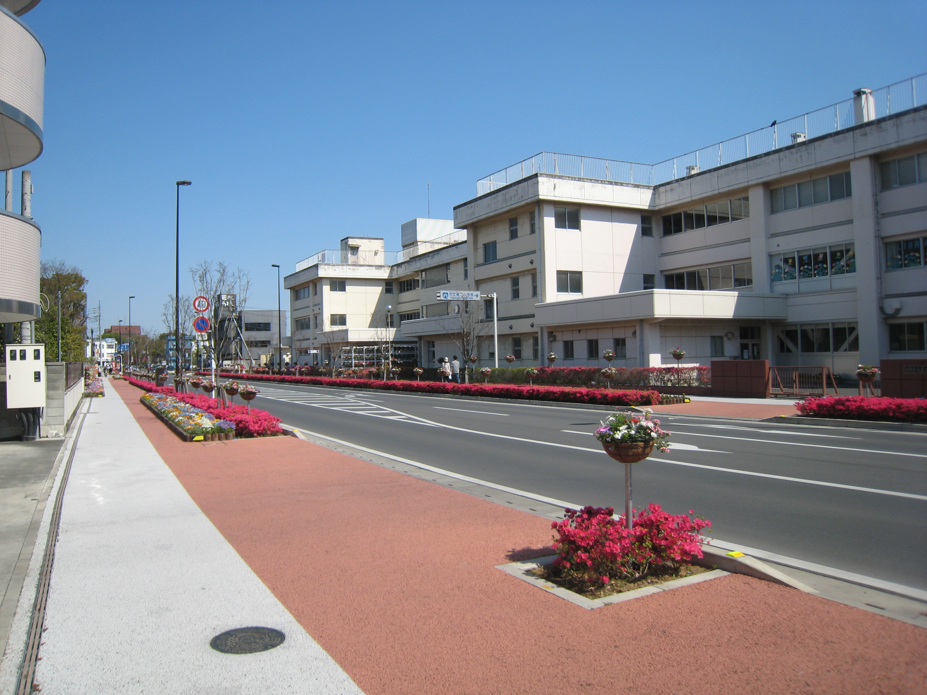 "Hana no machi Queen's dori" meaning "Flowers' town Queen's street" that was taken in front of Tatebayashi Daini(Second) Elementary School in Tatebayashi,Gunma Pref.,Japan.